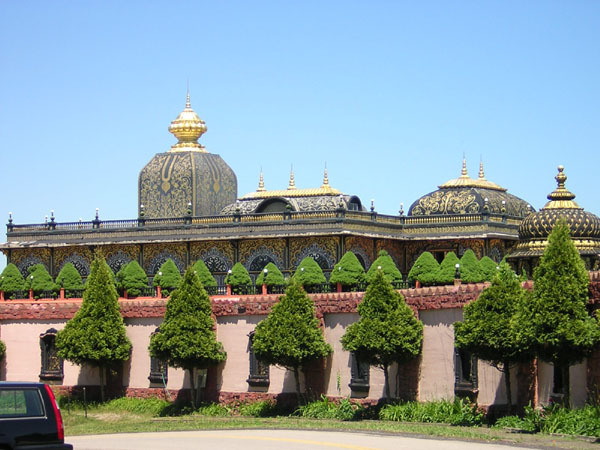 Picture of Prabhupada's Palace of Gold at New Vrindaban community near Moundsville, West Virginia, on June 9, 2007.